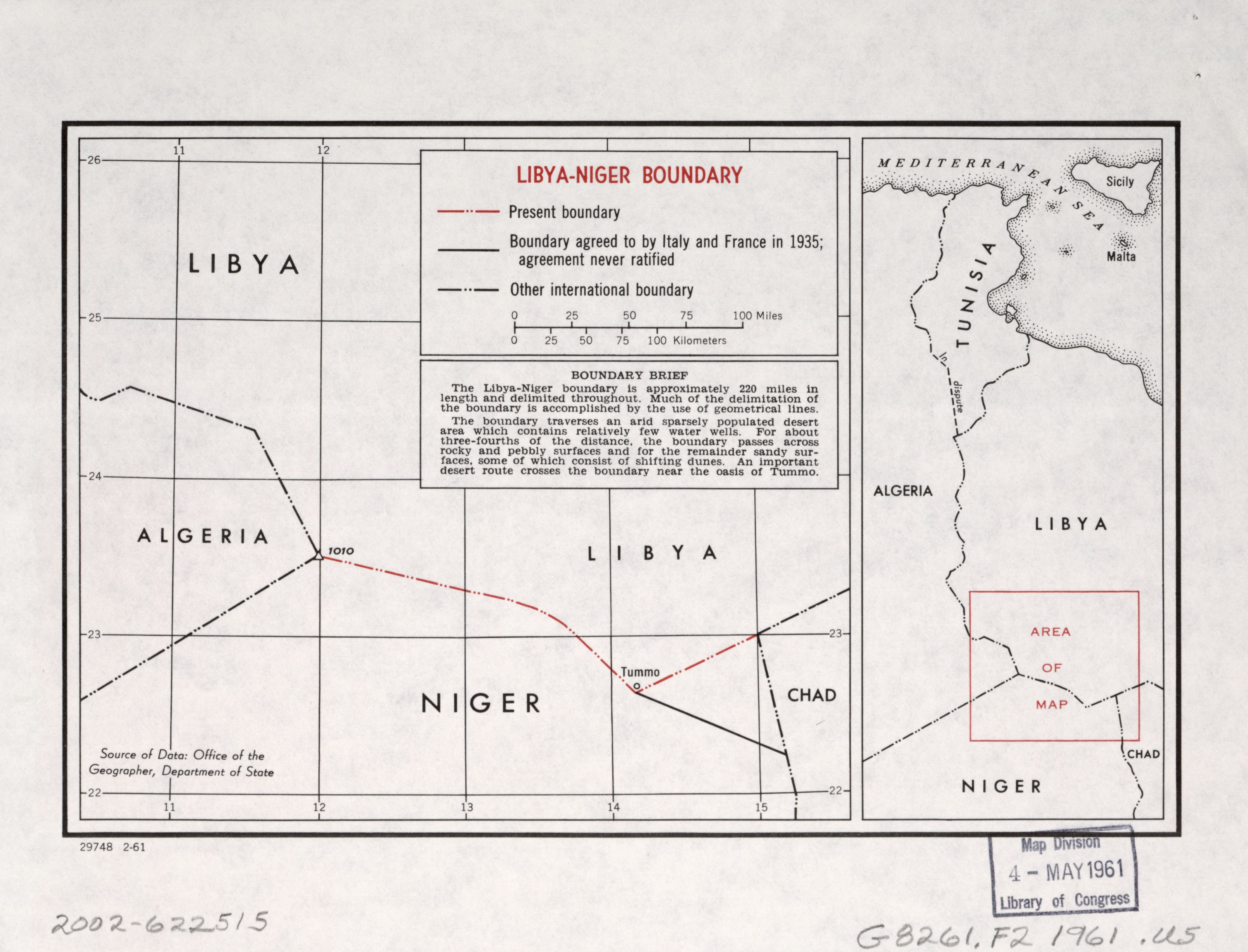 "29748 2-61." "Source of data: Office of the Geographer, Department of State." Includes note and key map. Available also through the Library of Congress Web site as a raster image.